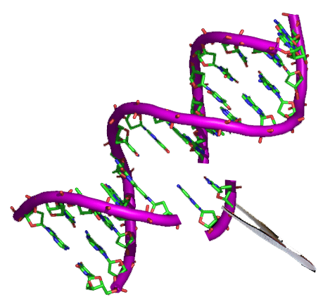 Diagram of a piece of DNA being removed by tweezers. Modified from two other commons files. Used to illustrate genetic engineering for series template